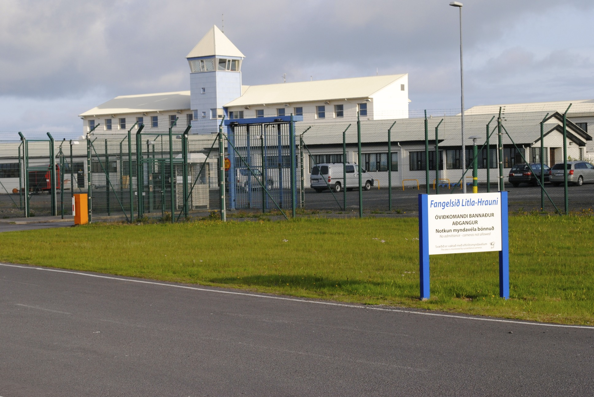 Litla-Hraun, close to Eyrarbakki, is the main prison in Iceland.